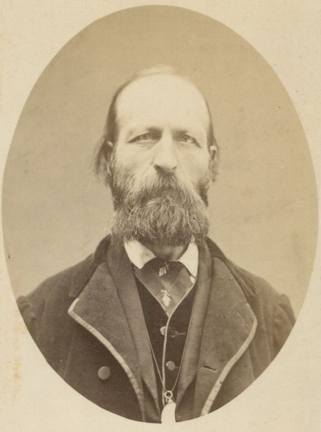 Jules Allix (1818-1897), member of the Commune de Paris